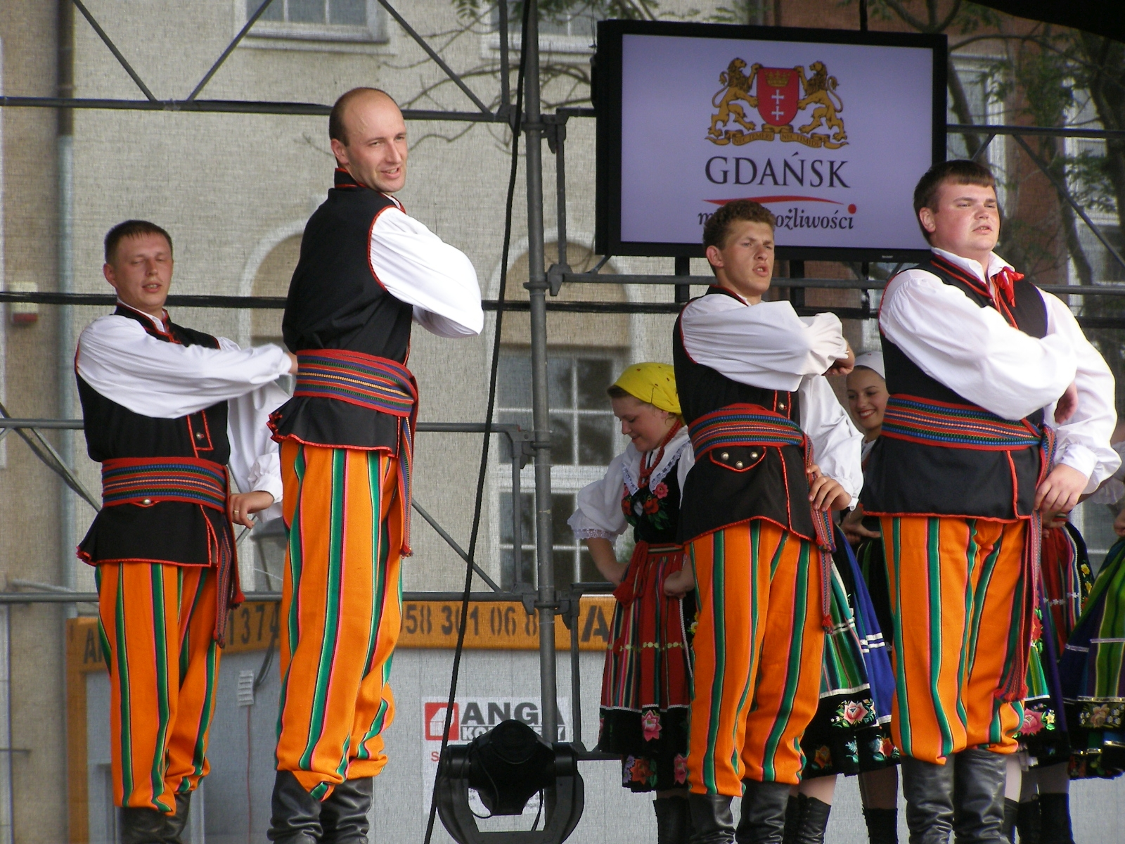 Gdańsk - Festival of the European Capitals of Culture "Vilnius in Gdańsk" - group Zgoda